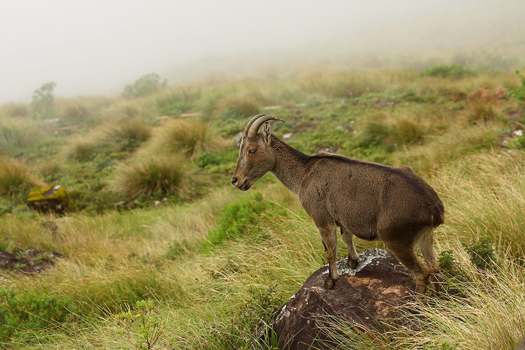 Eravikulam National Park, Kerala